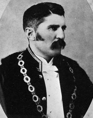 McLeod Stewart, Mayor of Ottawa, 1887-1888 REPRODUCTION: C-002050 (copy negative number)